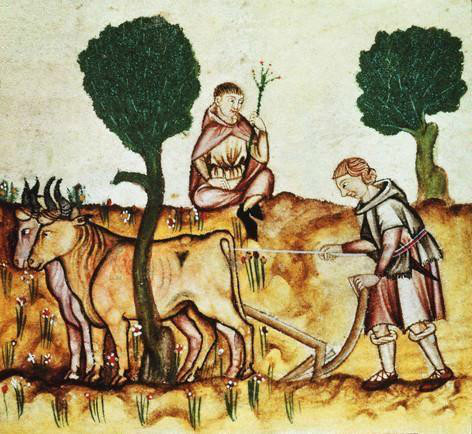 Medieval ox-drawn ard ploughing. A minature from the epoch.